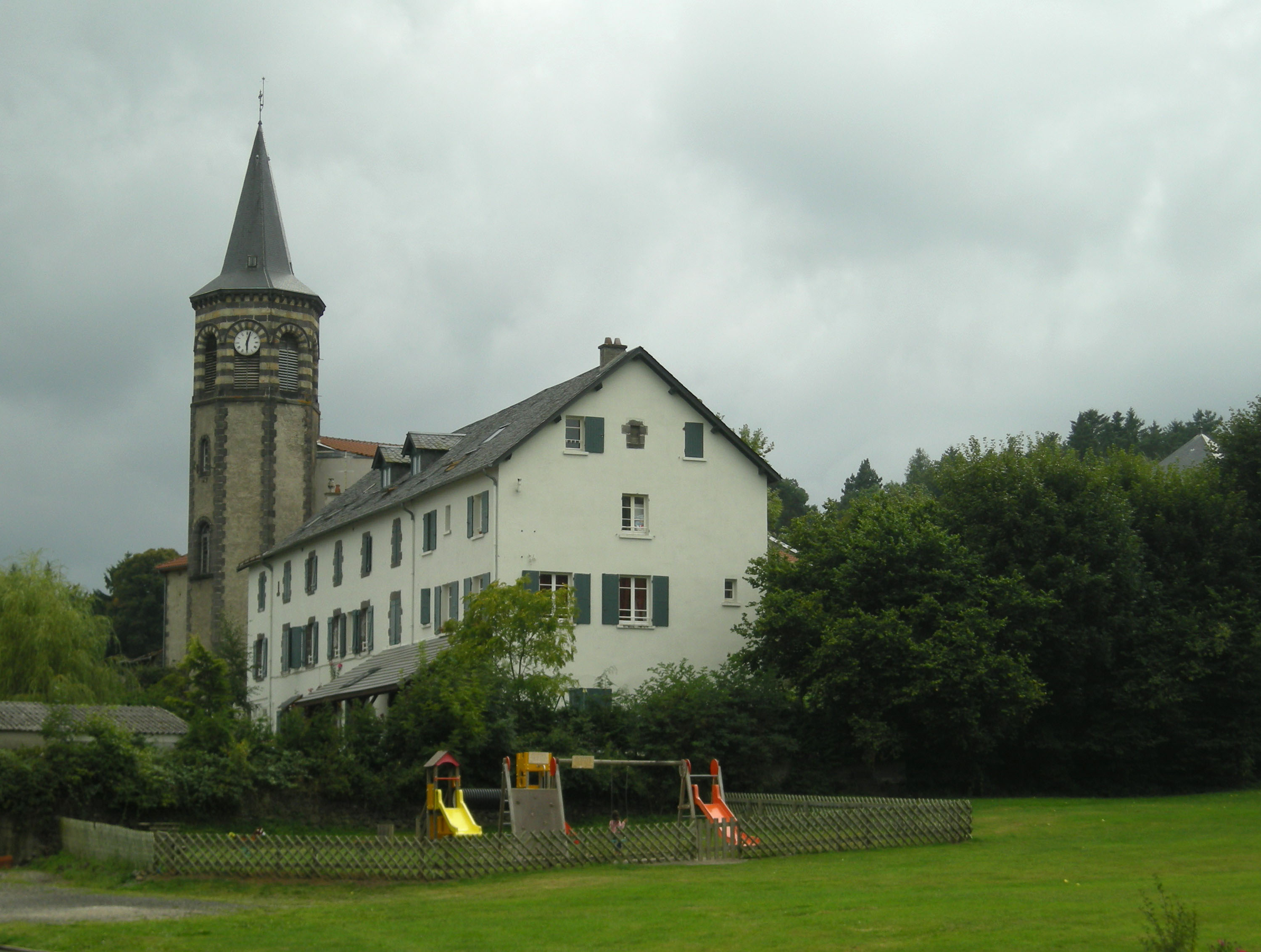 Church Saint-Julien in Orcines (Auvergne, France)